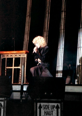 Photo taken during of the concerts in 1990